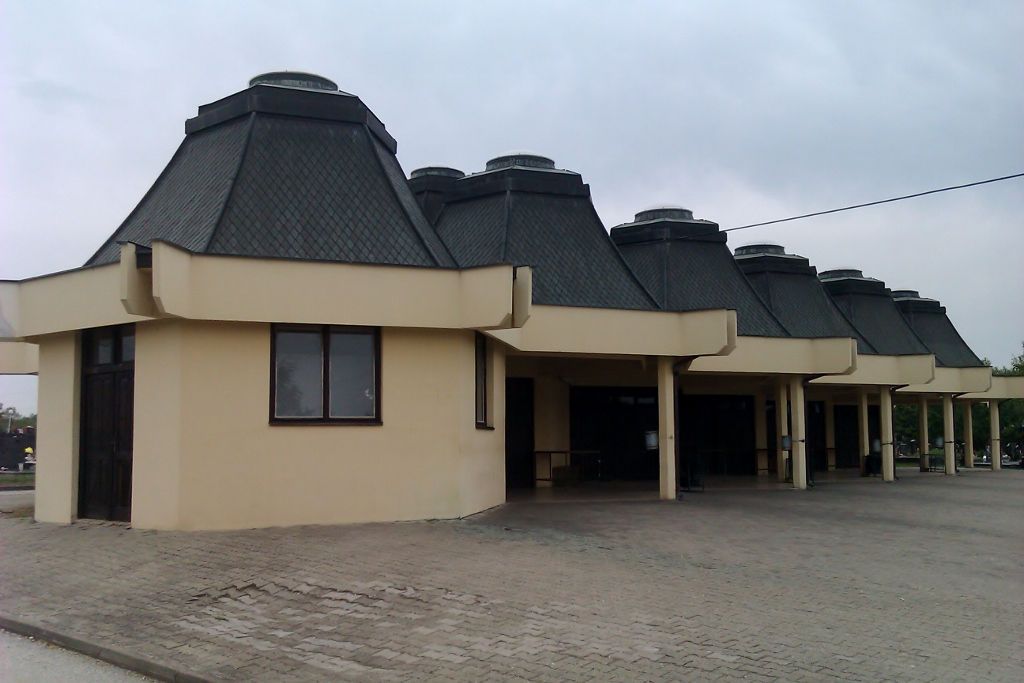 Cemetery Bozman Kragujevac, author of Veroljub Atanasijević, architect, 1978